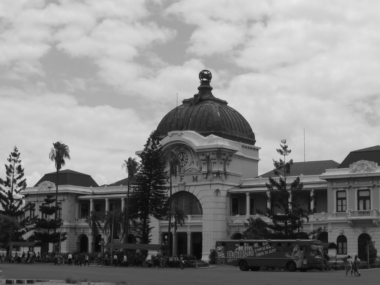 Maputo train station, Maputo, Mozambique